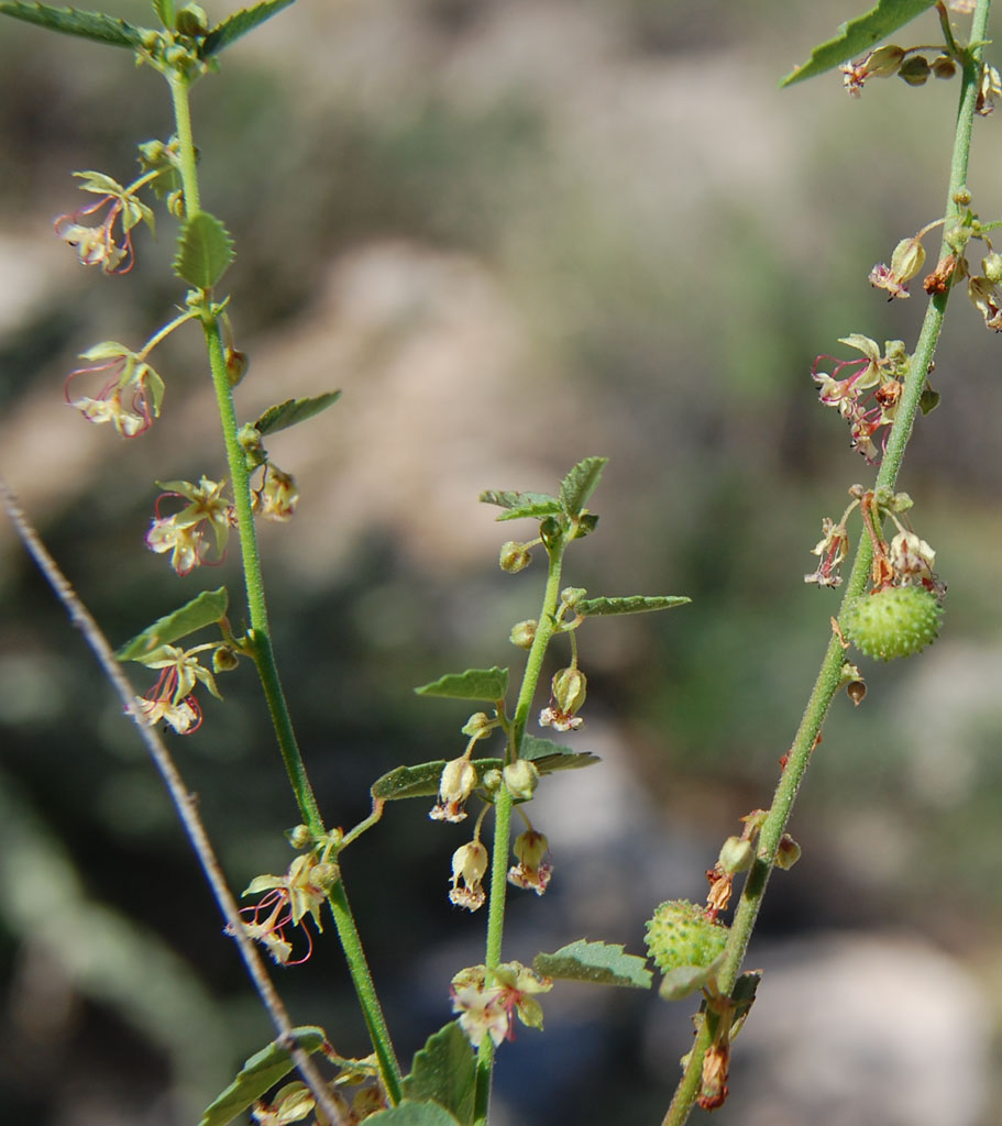 Ayenia compacta, California ayenia, Wickenburg Mountains, Yavapai Co., Arizona, USA